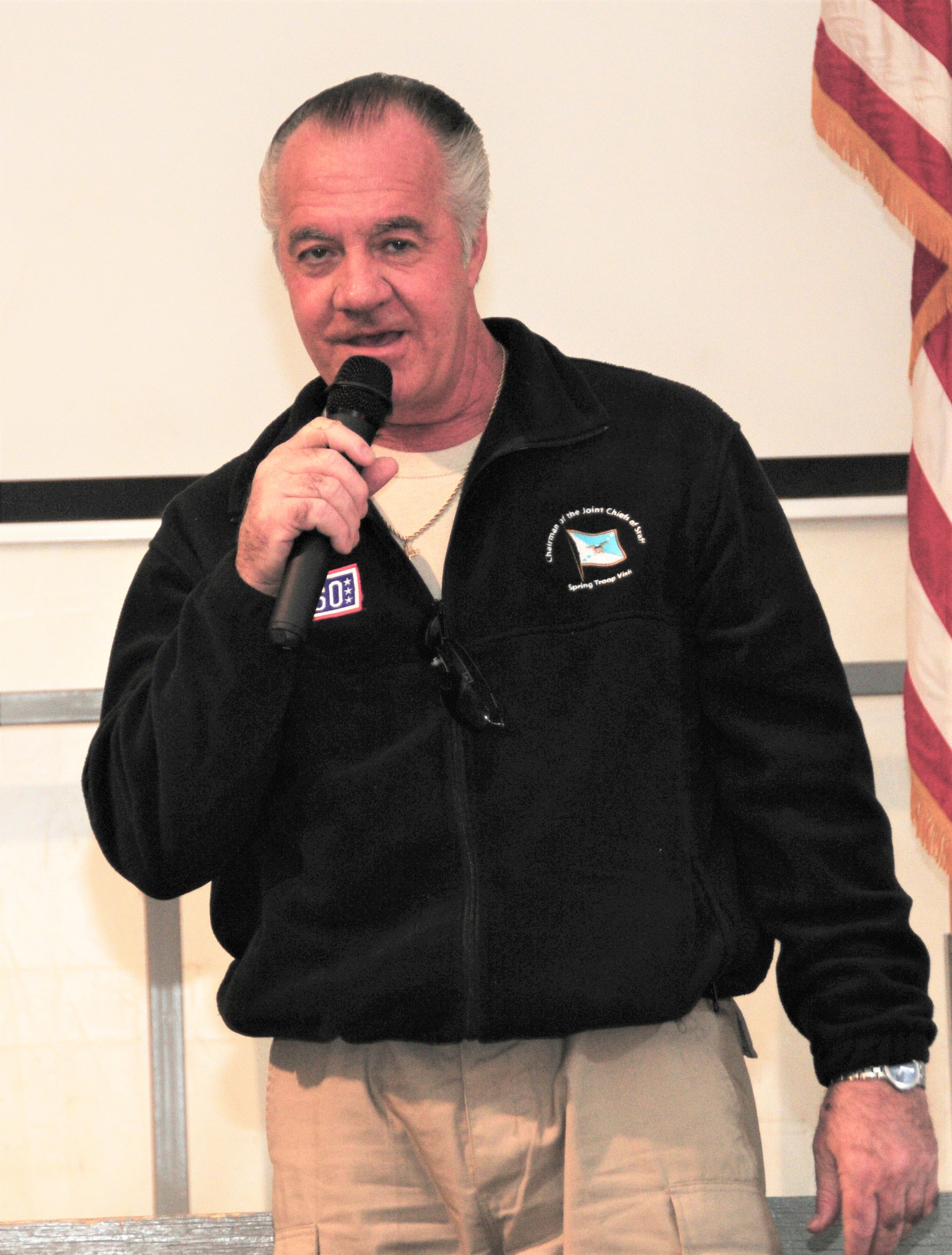 Tony Sirico, best known for his character "Pauly" on the HBO series "The Sopranos", thanks military members, Department of Defense civilians and contract professionals for their service during a USO tour March 31, 2010 at an air base in Southwest Asia.